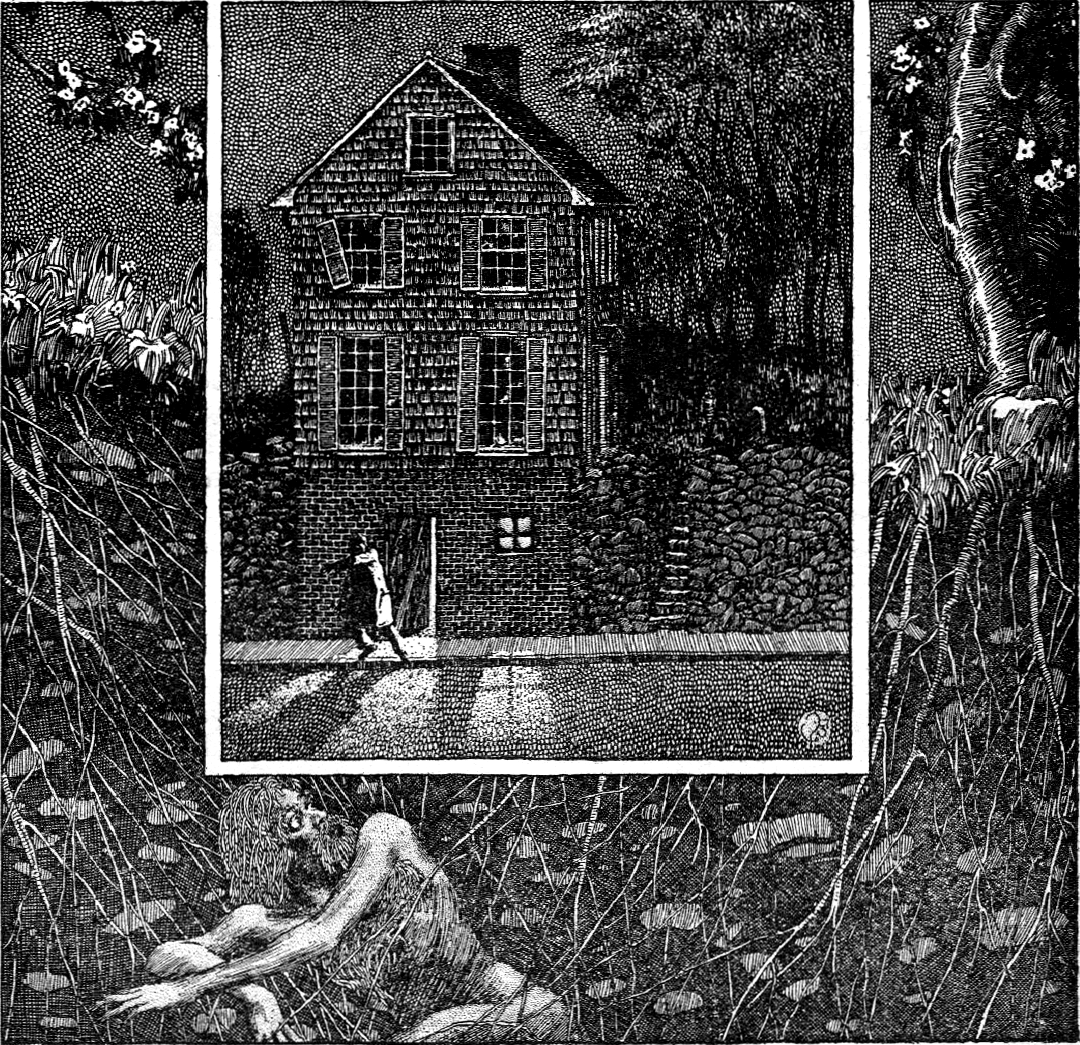 Main illustration for the story "The Shunned House". Internal illustration from the pulp magazine Weird Tales (October 1937, vol. 30, no. 4, page 387).